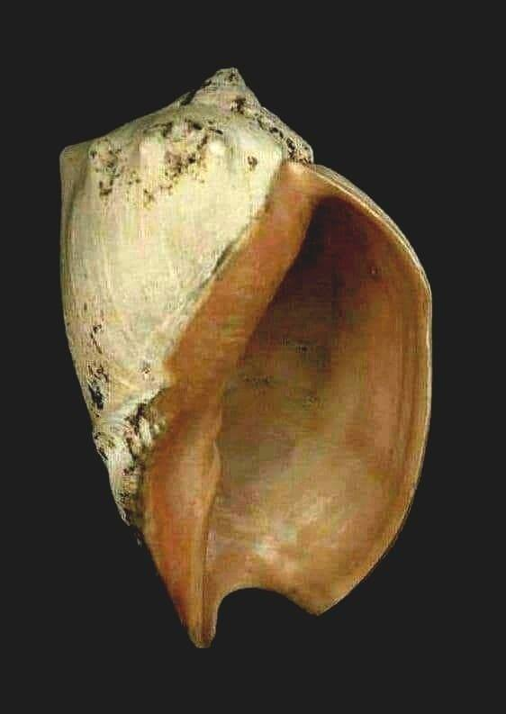 Seashell of Adelomelon brasiliana (Lamarck, 1811)[1]. From the collection of M. de Lanoy Meijer and collected in Santos, São Paulo, southeast coast of Brazil (1970).